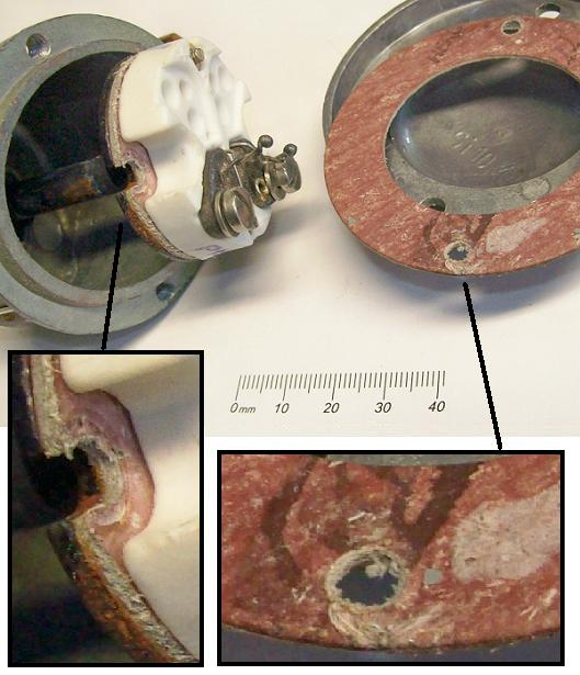 asbestos (Asbest) as part of a PT100 temperature sensor